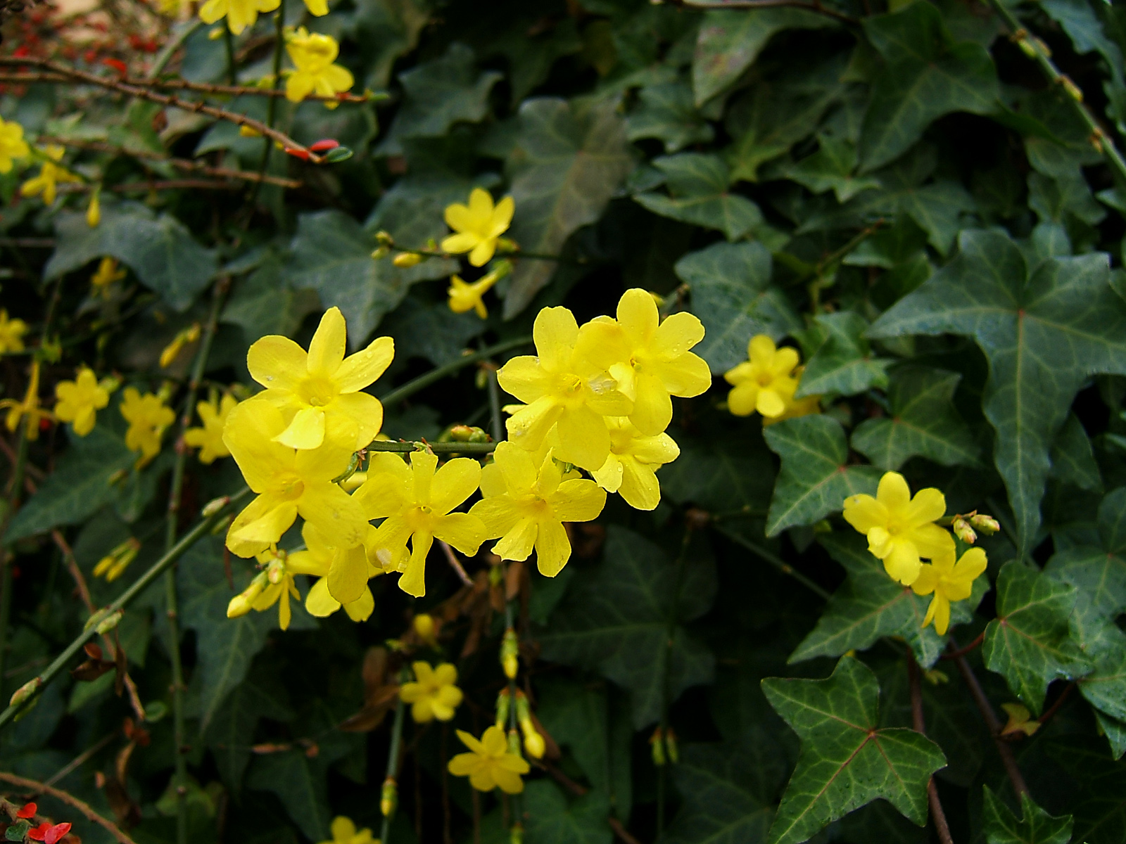 Winter Jasmine